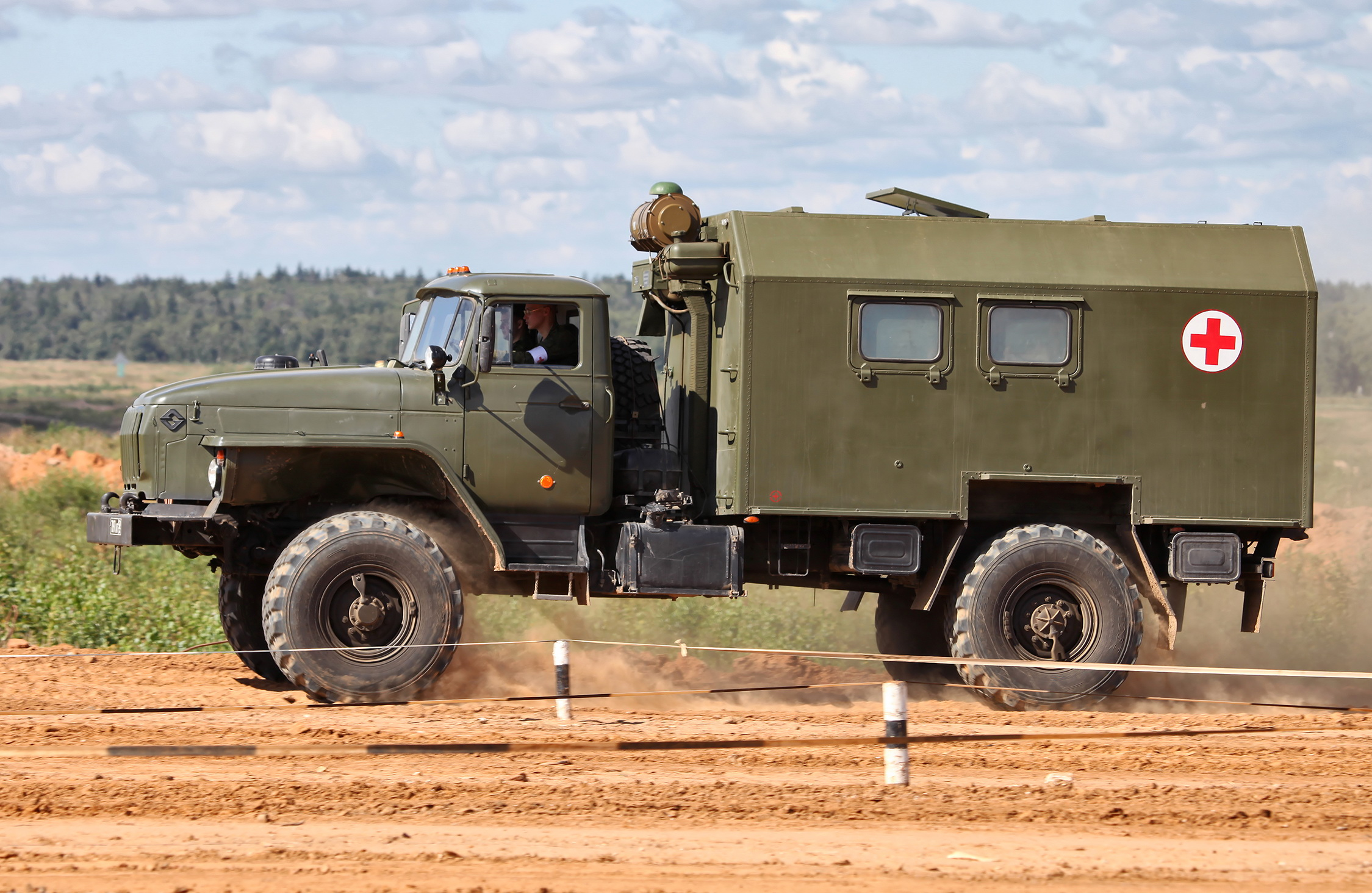 Medic Ural-43206